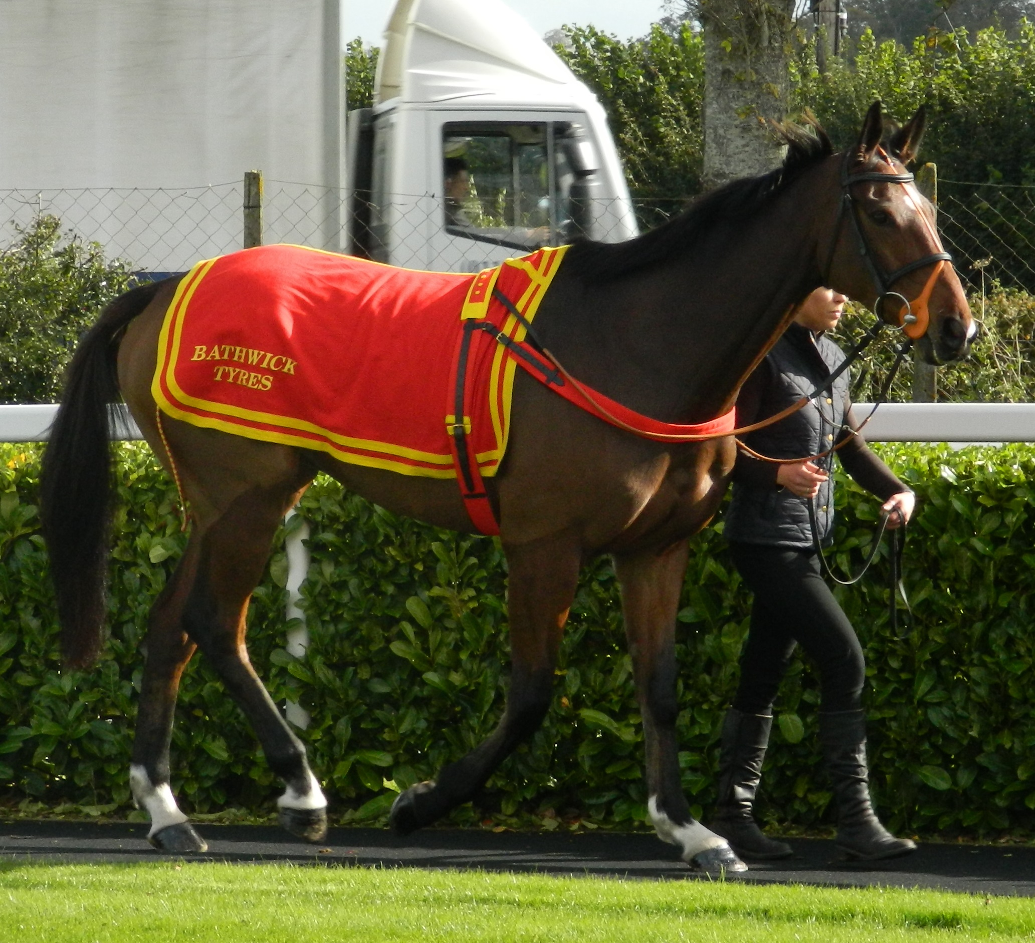 Hunt Ball. Parade of racehorses featuring some of the stars from the West Country.